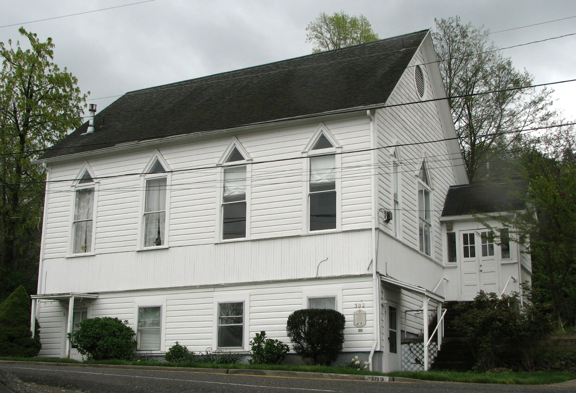 The historic Troutdale Methodist Episcopal Church (built 1895), located at 302 Southeast Harlow Street in Troutdale, Oregon, United States is listed on the US National Register of Historic Places.